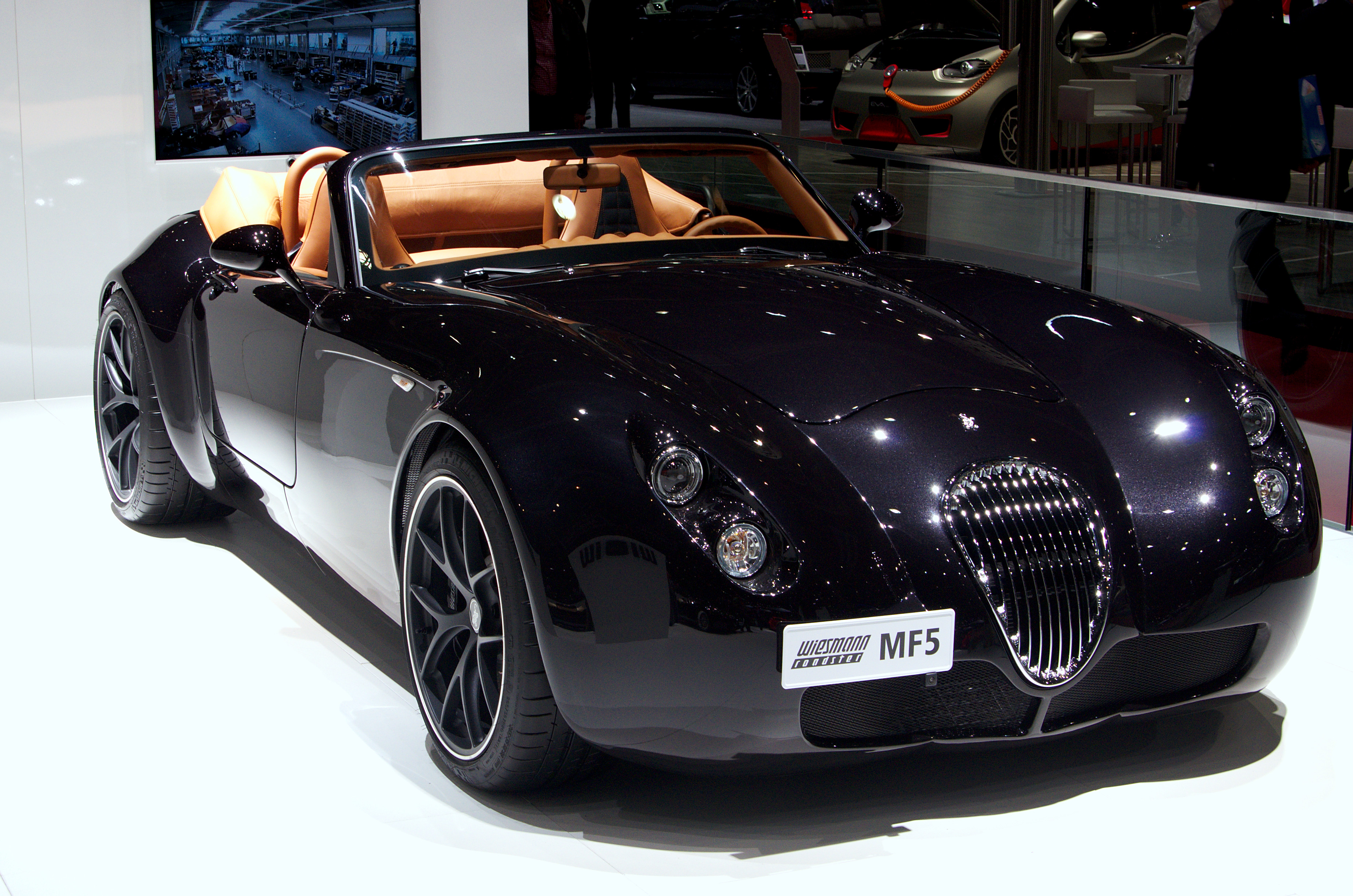 Geneva MotorShow 2013 - Wiesmann MF5 Roadster